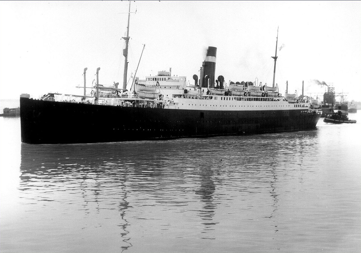 SS ATHENIA seen in Montreal Harbour - 1933 Credit National Archives of Canada